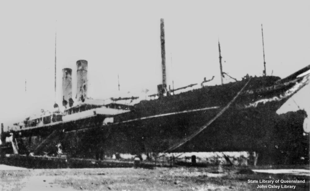 RMS Atrato, built by Robert Napier & Co of Govan, Glasgow in 1888 for the Royal Mail Steam Packet Co. 5,366 GRT, 3,069 NRT. 421.2 x 50 x 25 ft. Viking Cruising Co bought her in 1912 and renamed her The Viking. The Admiralty requisitioned her in 1914, converted her to an armed merchant cruiser and commissioned her as HMS Viknor. On 13 January 1915 she disappeared in the North Atlantic northwest of Ireland with the loss of 284 lives, sunk possibly by a mine.